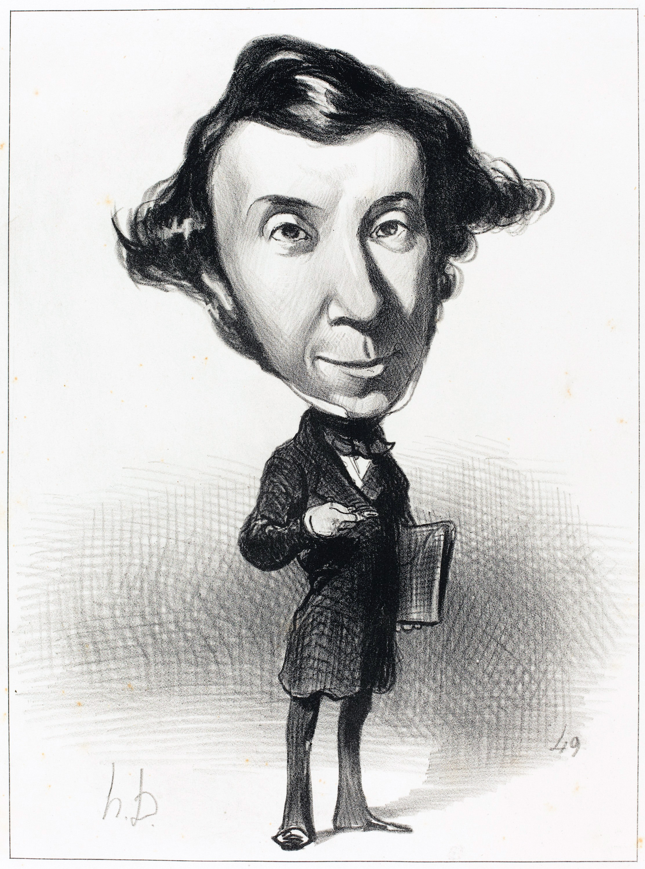 Caricature of Jean-Louis Greppo. National Gallery of Art, Rosenwald Collection, 1949.5.51